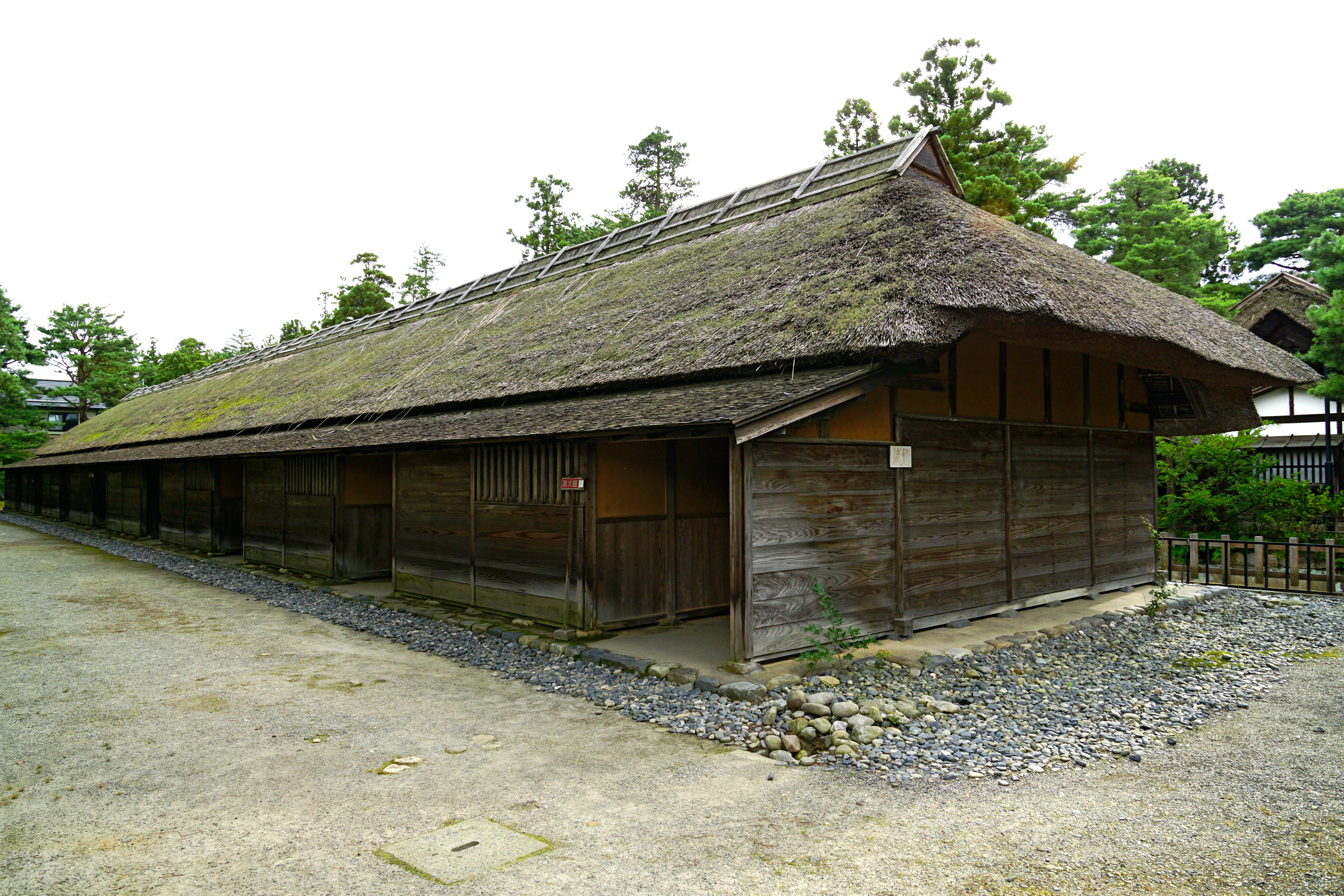 Shimizu-en in Shibata, Niigata prefecture, Japan.